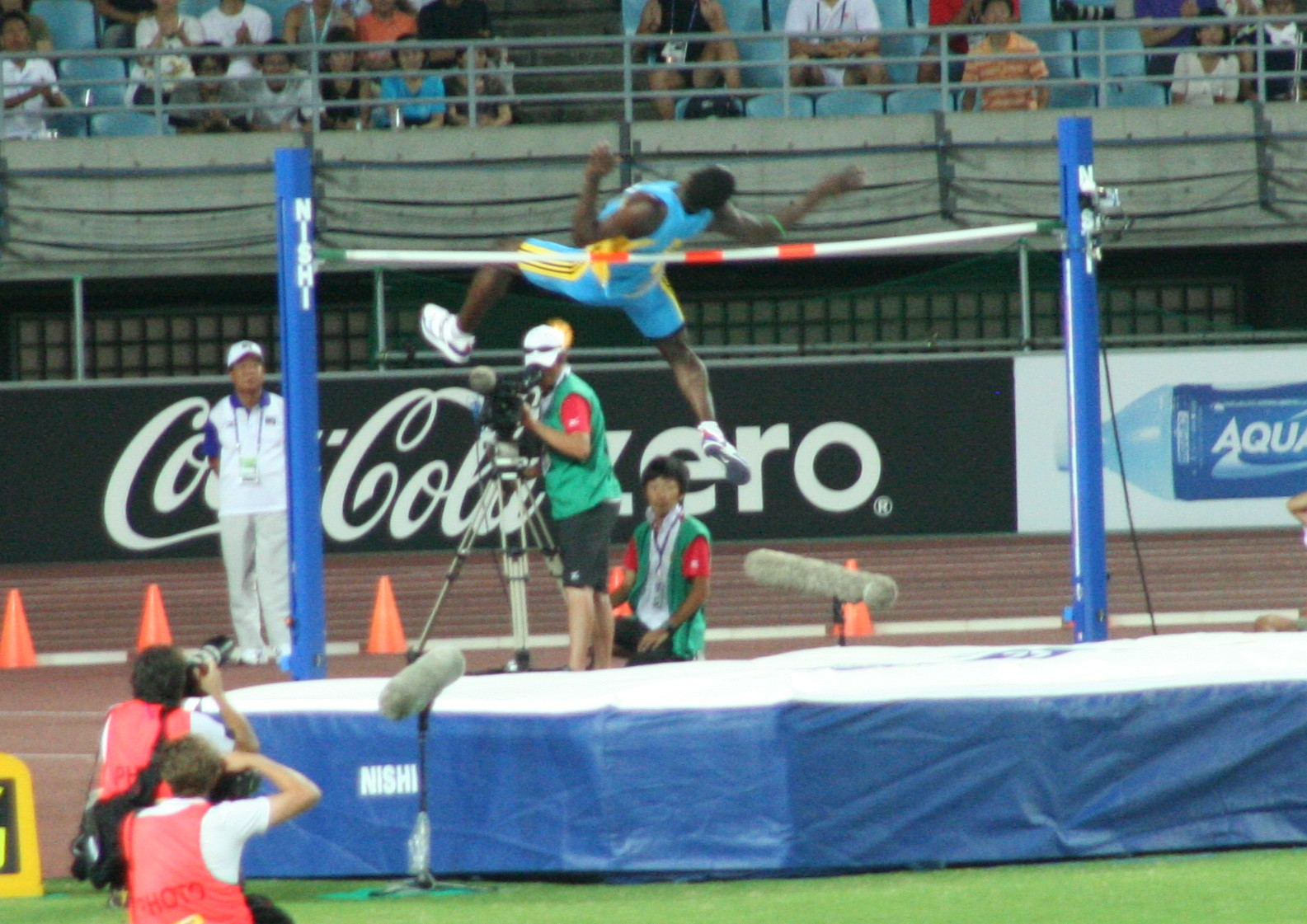 World Athletics Championships 2007 in Osaka - An attempt by winner Donald Thomas (Bahamas) during the men's high jump final